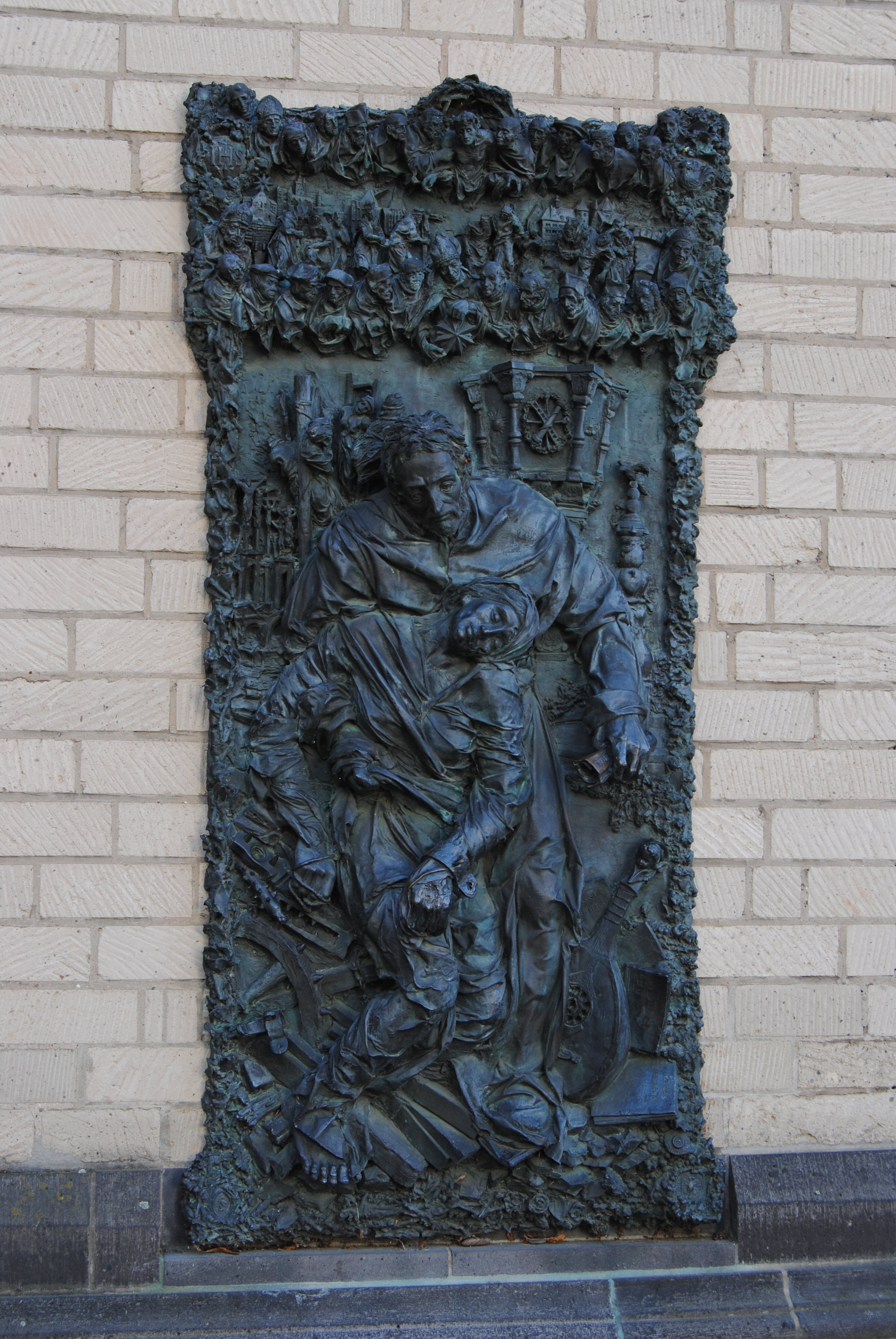 Bronzerelief Bert Gerresheim 1991, Epitaph für Friedrich Spee This image shows a heritage building in Germany, located in the North Rhine-Westphalian city Düsseldorf (no. 295).